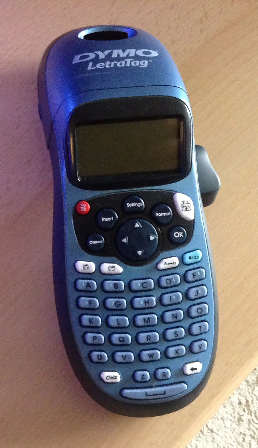 pulsn machineroom 14